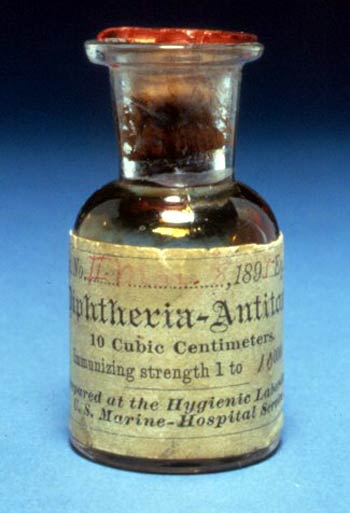 One of the first bottles (1895) of diphtheria antitoxin produced at the Hygienic Laboratory, which became the NIH in 1930. Diphtheria antitoxin, was produced by inoculating horses or goats with increasingly concentrated doses of diphtheria bacteria. The animals were then bled and their blood serum was collected and bottled as an antitoxin. When injected into the body of a patient suffering from diphtheria, the antibodies in the horse serum neutralized the toxin causing the patient’s symptoms.